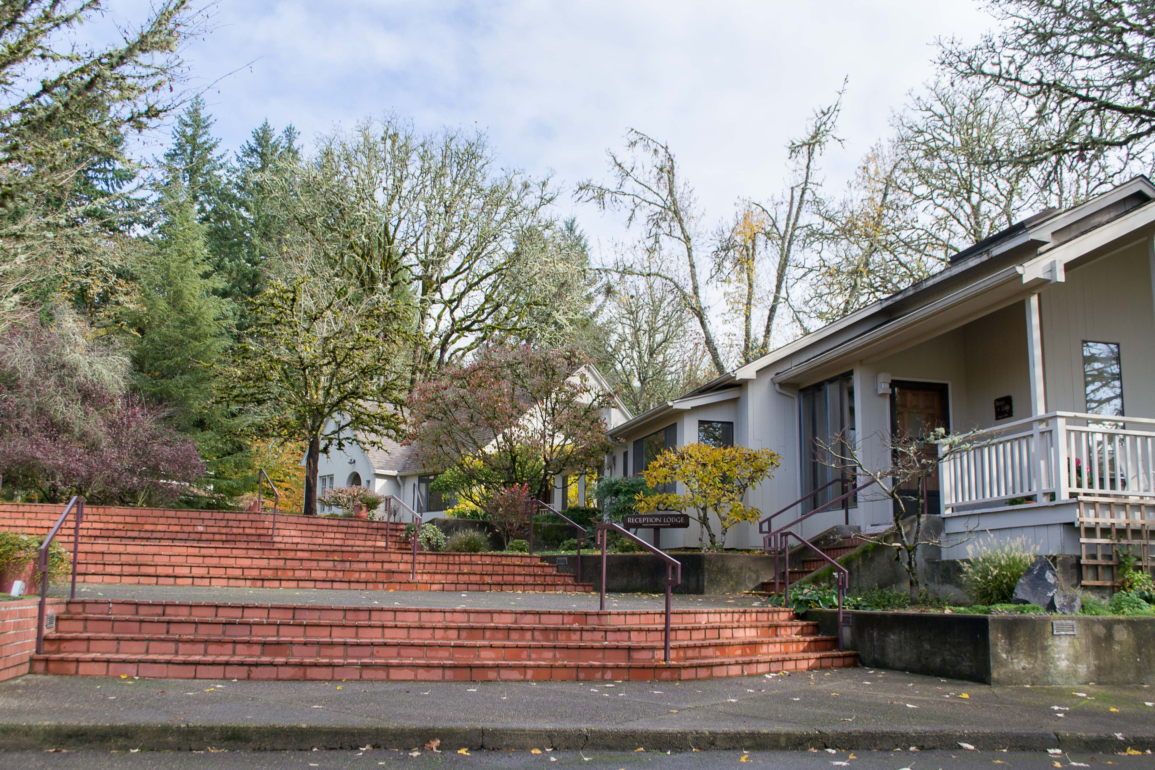 Our Lady of Guadalupe Trappist Abbey near Carlton, Oregon